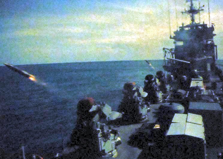 USS St. Francis River (LSMR-525) fires a pair off rockets toward enemy positions near Chu Lai, Vietnam